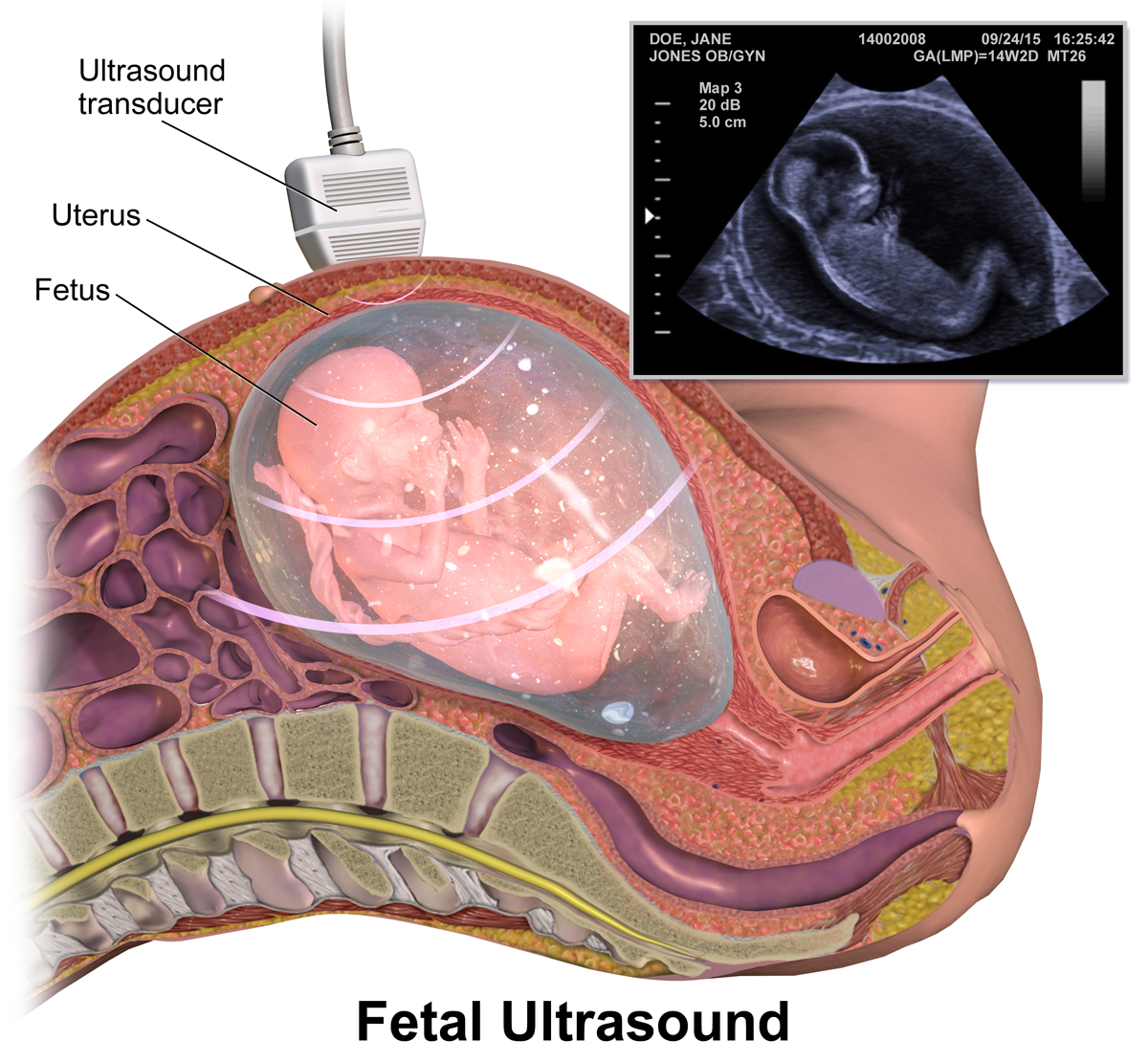 Fetal Ultrasound. See a full animation of this medical topic.